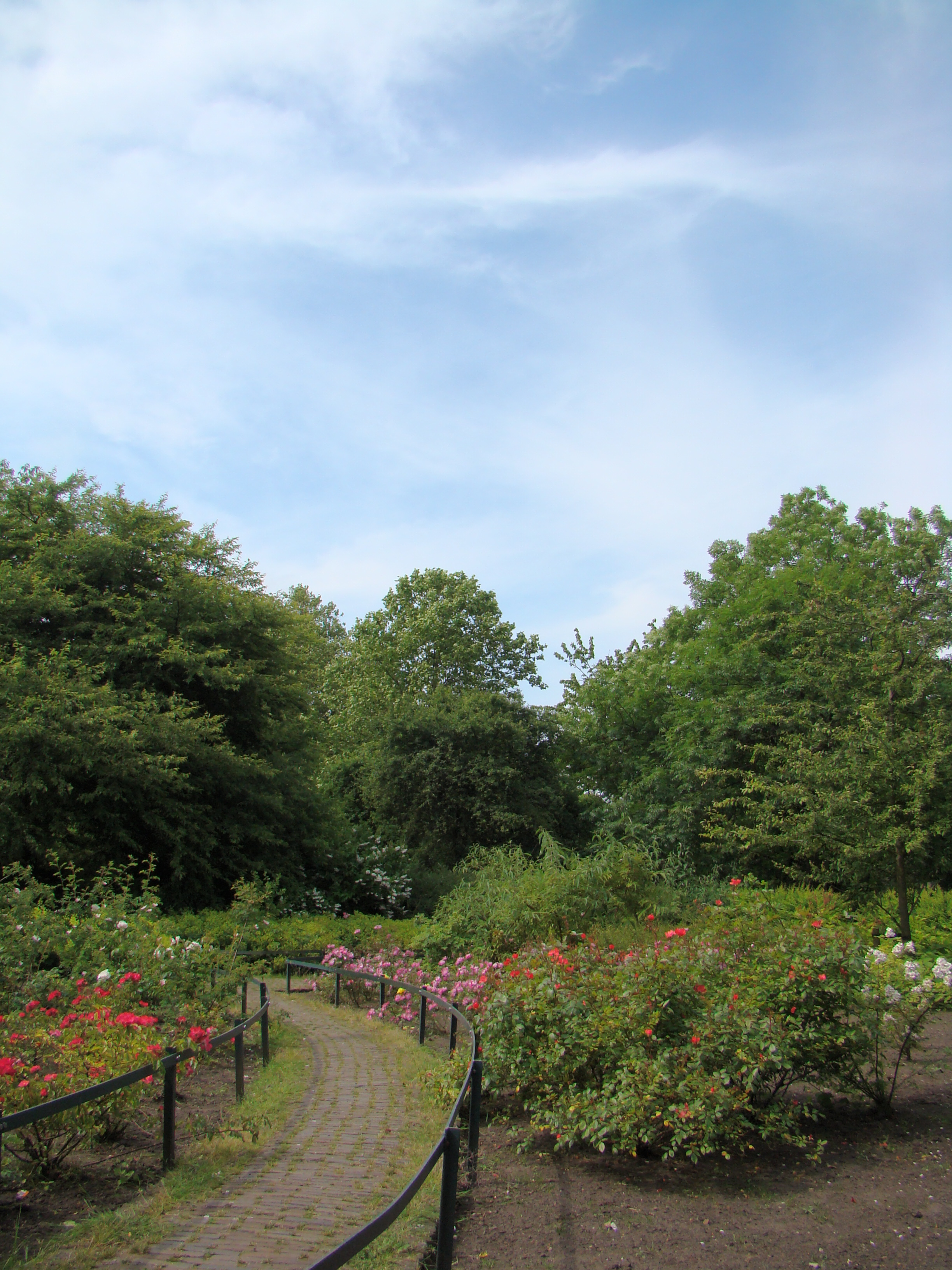 Frederik Hendrik Plantsoen at Amsterdam, the Netherlands